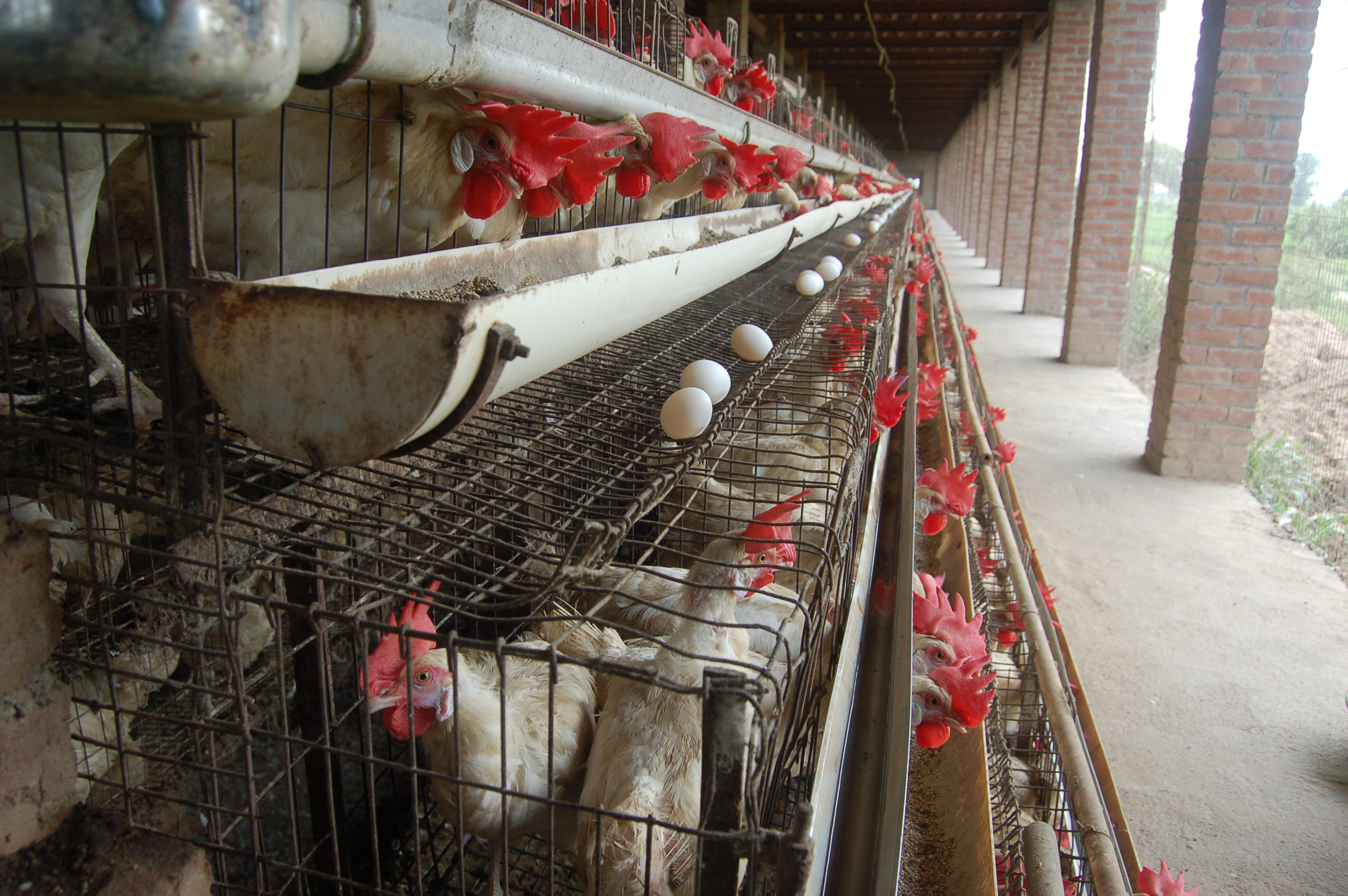 Battery cage facilities in Haryana, India